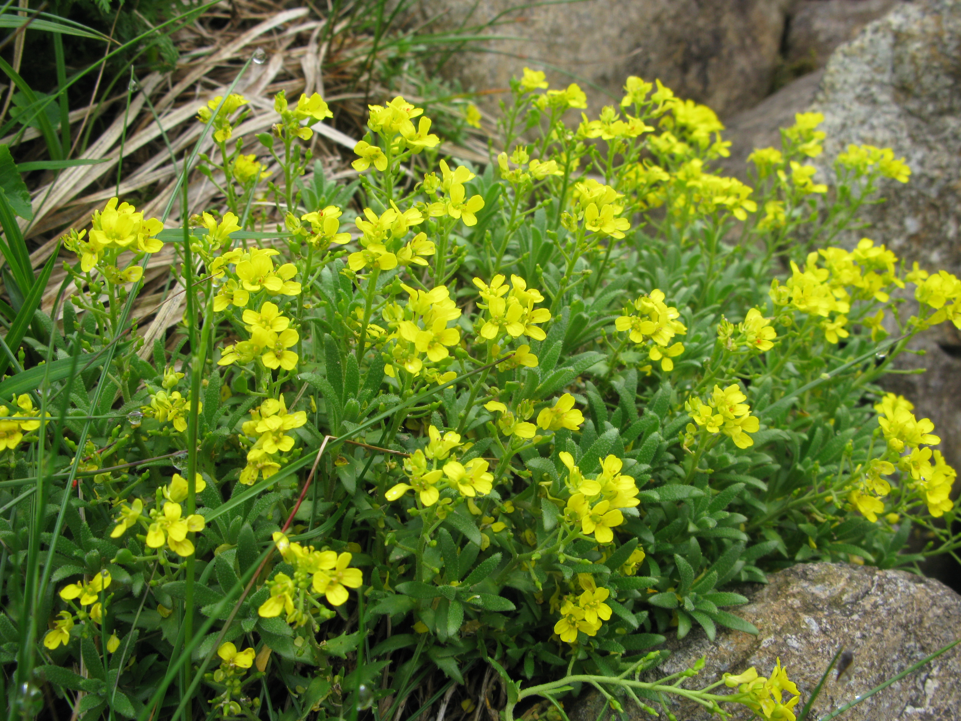 Draba japonica, Mount Hayachine, Iwate pref., Japan